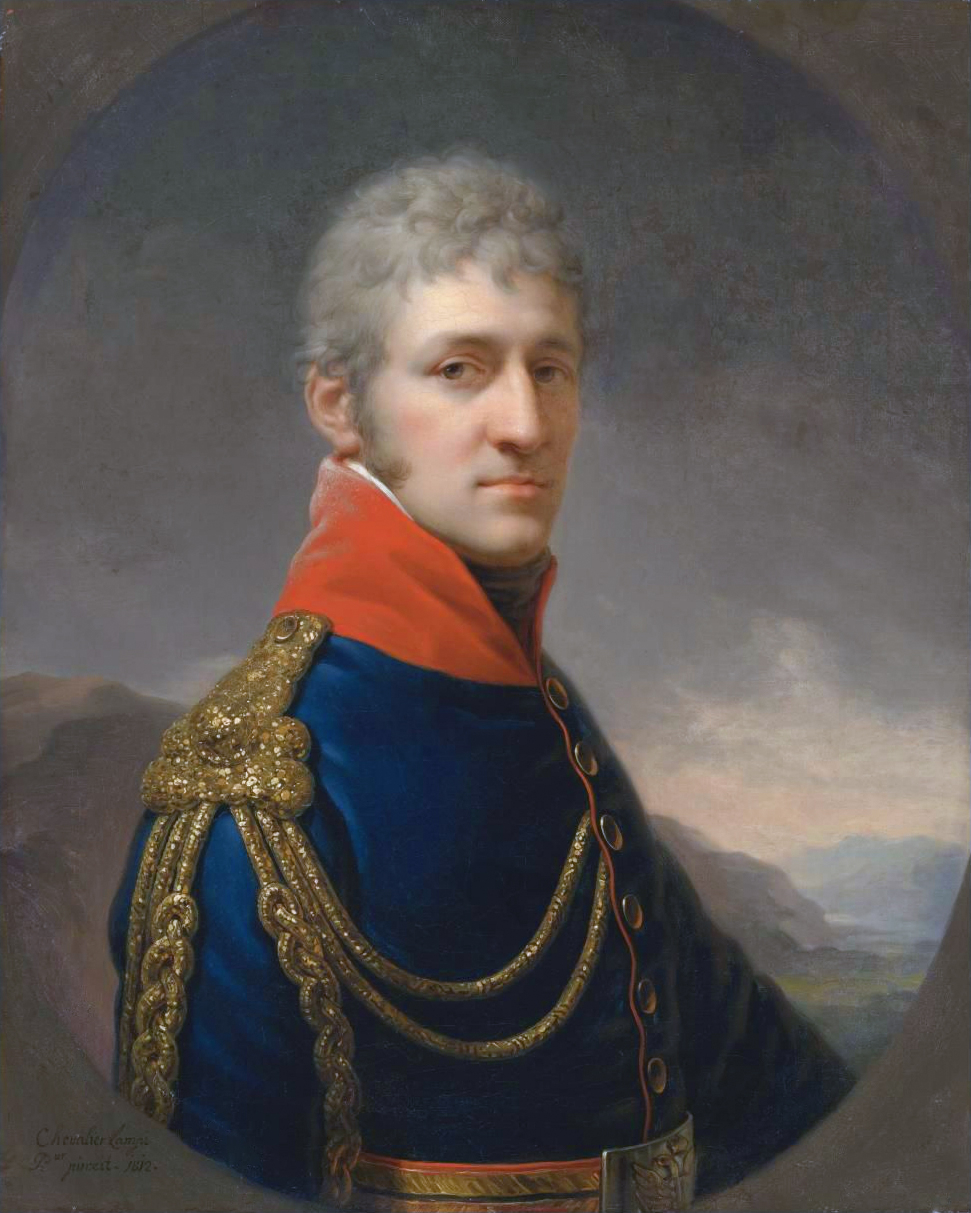 Anton Josef Edler von Leeb (1769 - 1837)